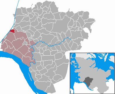 This map shows the area of the municipality Aebtissinwisch in the Kreis (district) Steinburg, Schleswig-Holstein, Germany.